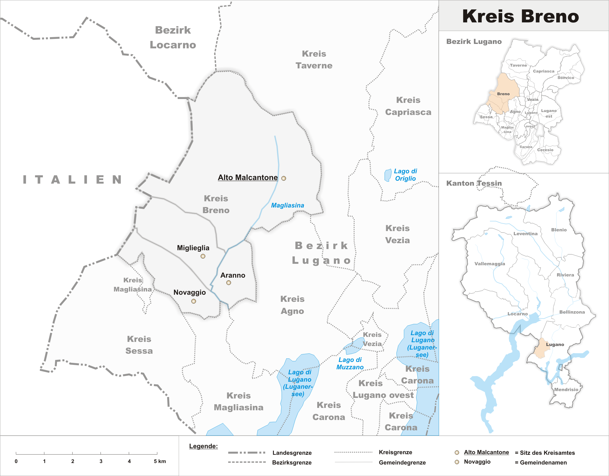 Municipalities in the circle of Breno